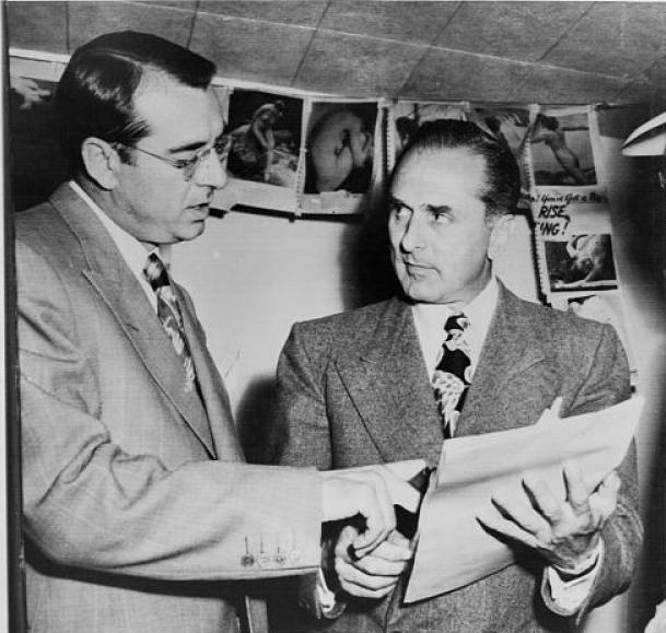 John Rosselli (right) checks over a writ of habeas corpus with his lawyer, Frank Desimone after Rosselli surrendered to the U.S. Marshall here yesterday...